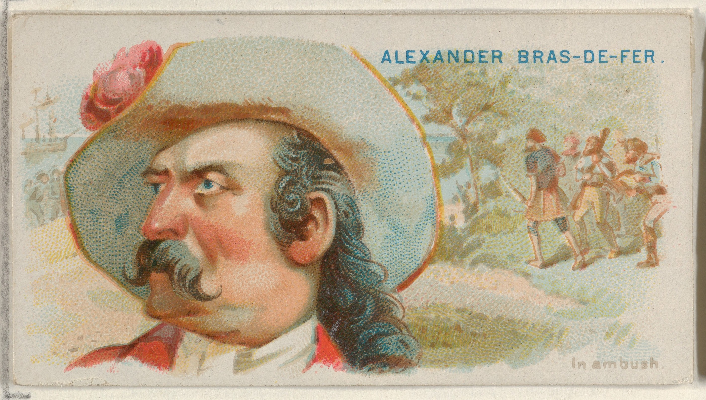 Print; Prints